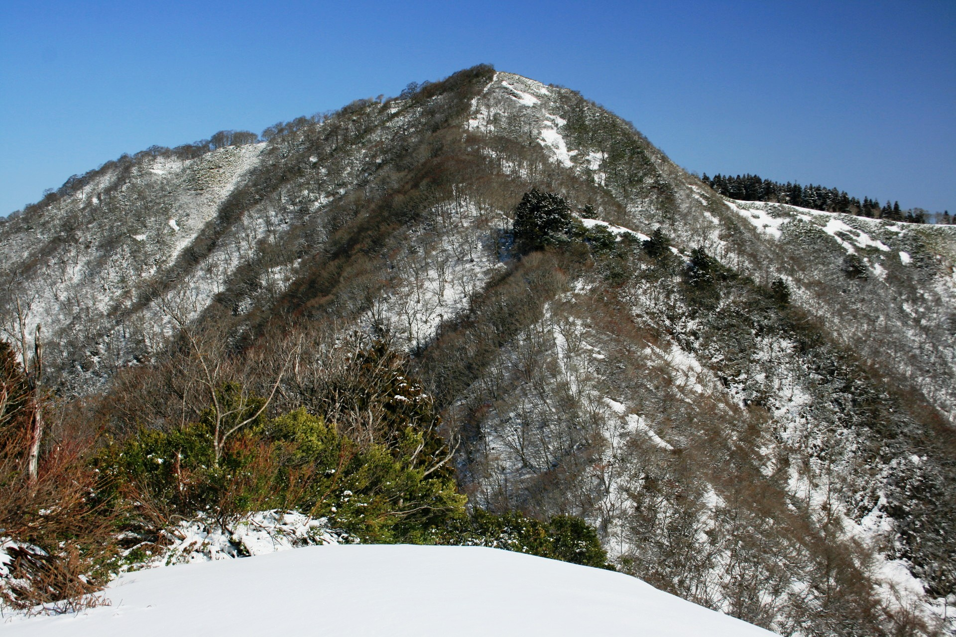 Mount_Odugongen_from_south